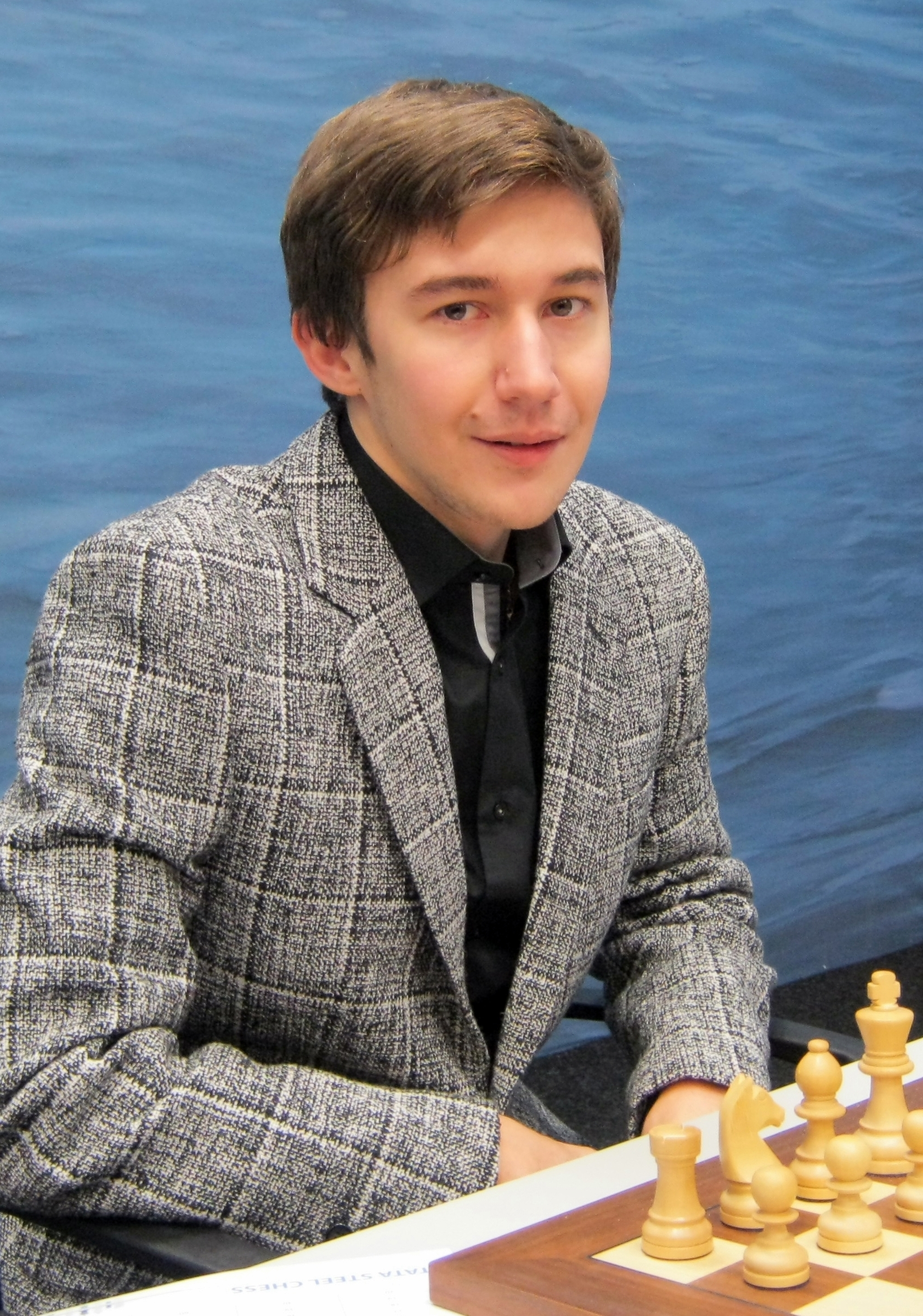 Sergey Karjakin, chess grandmaster from Russia